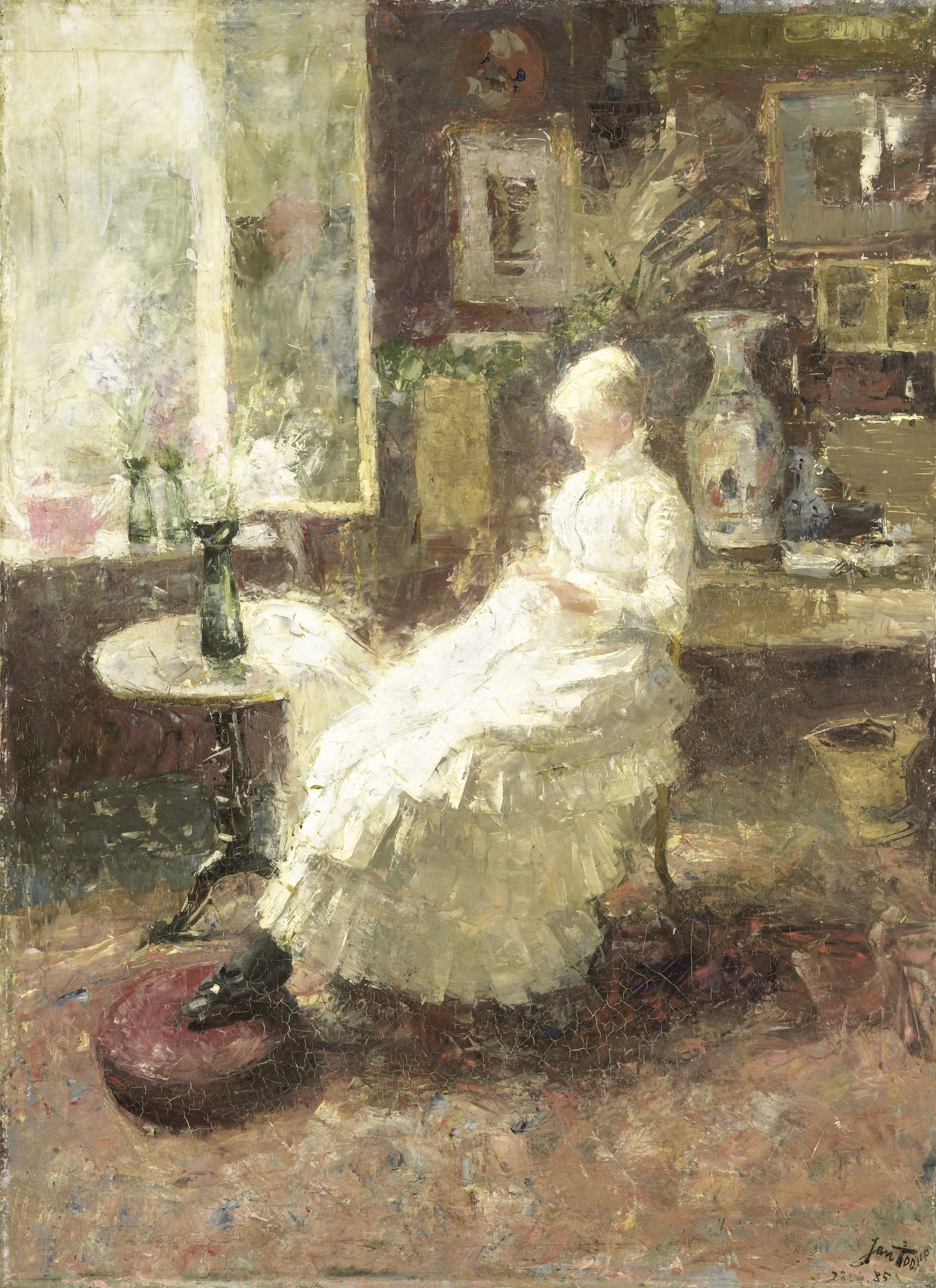 Portrait of Annie Hall in Lissadell, Surrey. In a room a sitting woman is doing needlework by a round table.